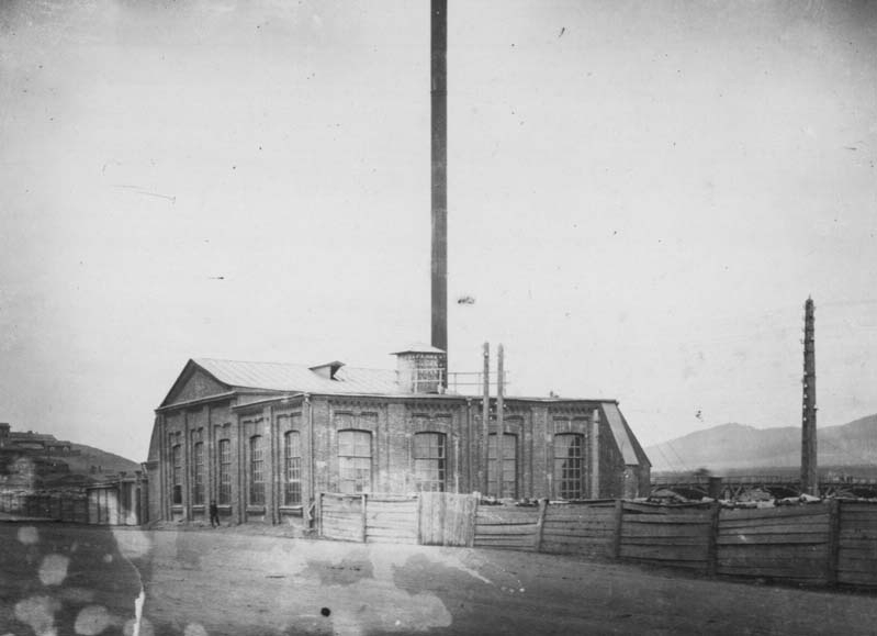 Верхнеудинская городская электростанция. Ул. Набережная 1-8